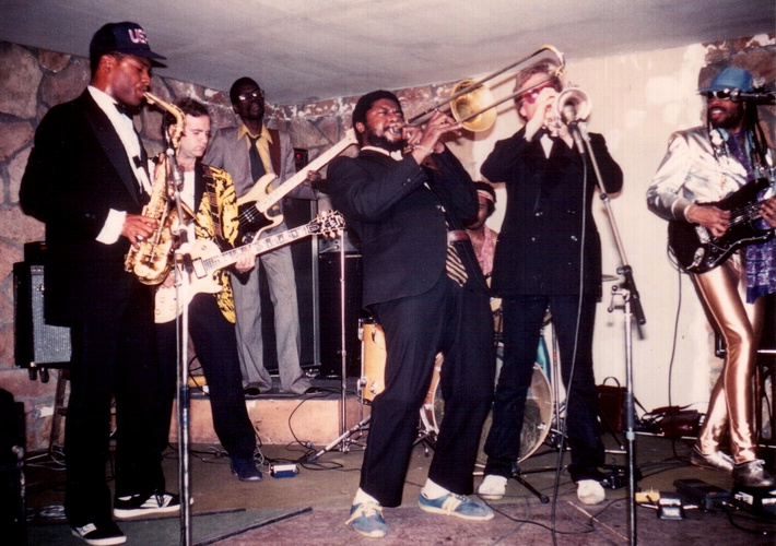 jazz funk group Dizzazz in Paris, France. From left to right : Luther Thomas (as), Danny Petroni (g), Donald Nicks (f-b), Marvin Neal (tb), Warren Benbow (dms), John K. Mulkerin (tp) and Billy Paterson (g)